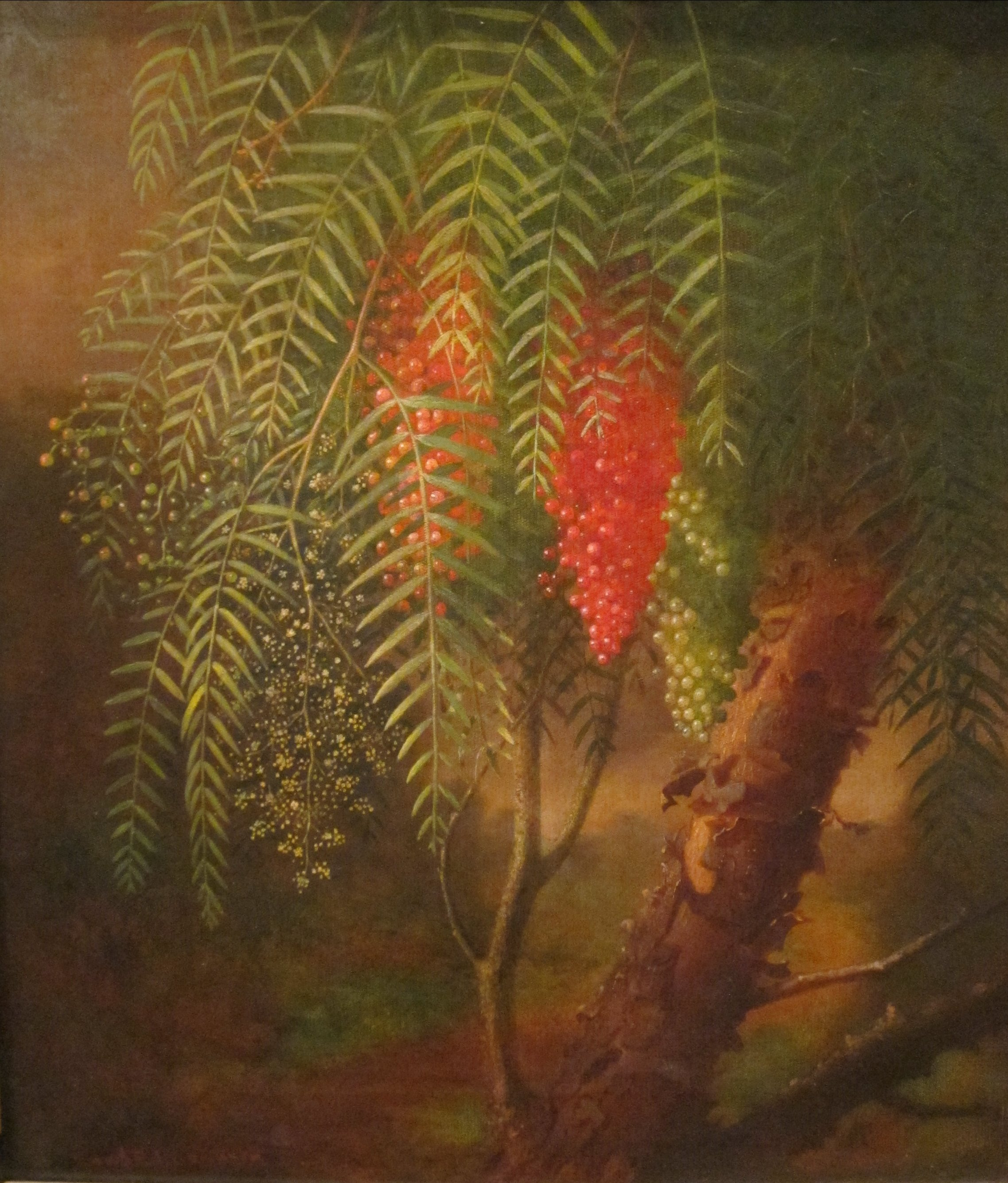 California Pepper Tree